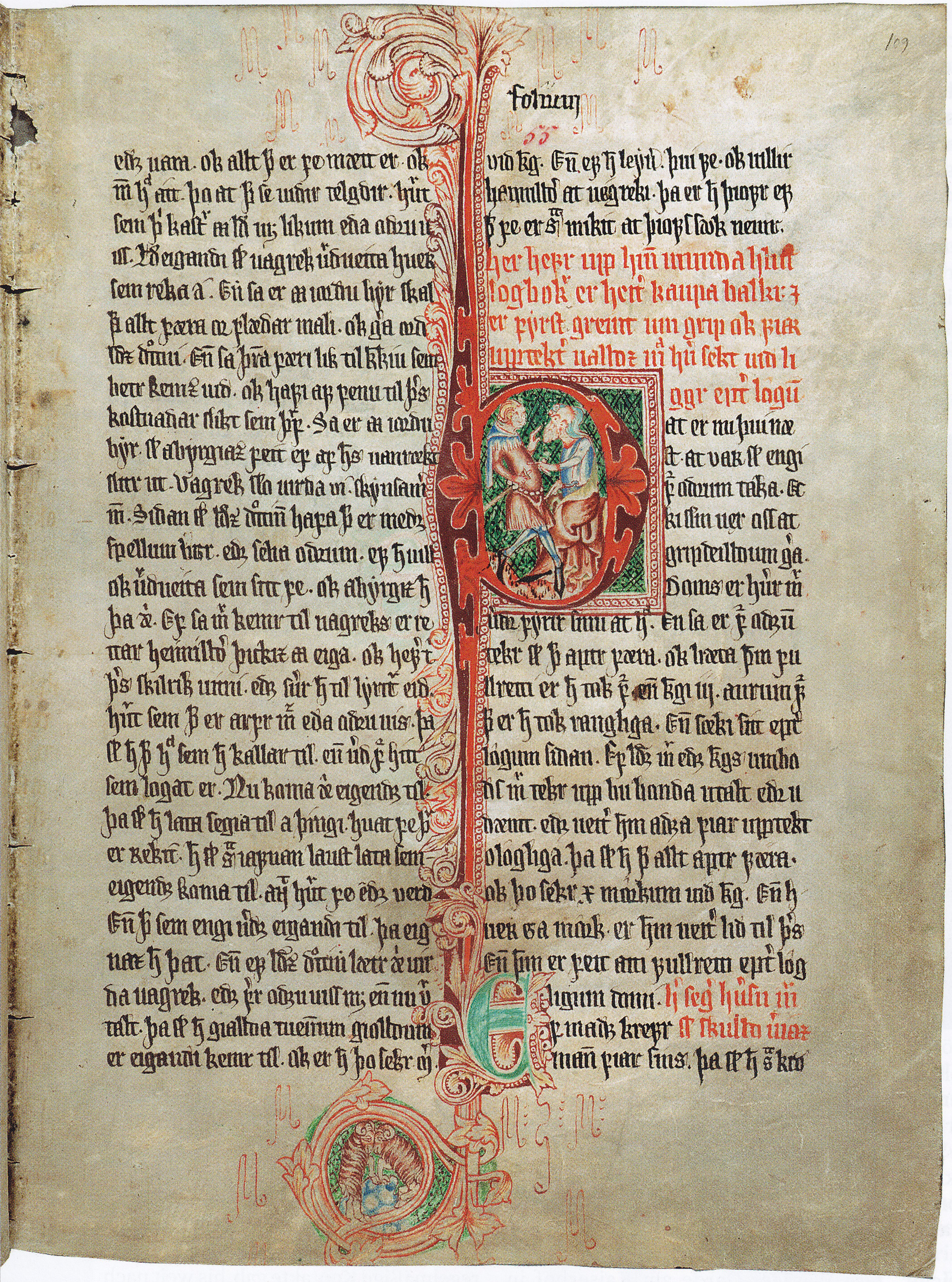 The Skarðsbók Jónsbókar page (Jonsbok Law Codex) from Skardi, part of the Skarðsbók ('The Book of Skard'), an illustrated law manuscript, written in 1363 (vellum) / Arni Magnusson Institute, Reykjavik, Iceland.